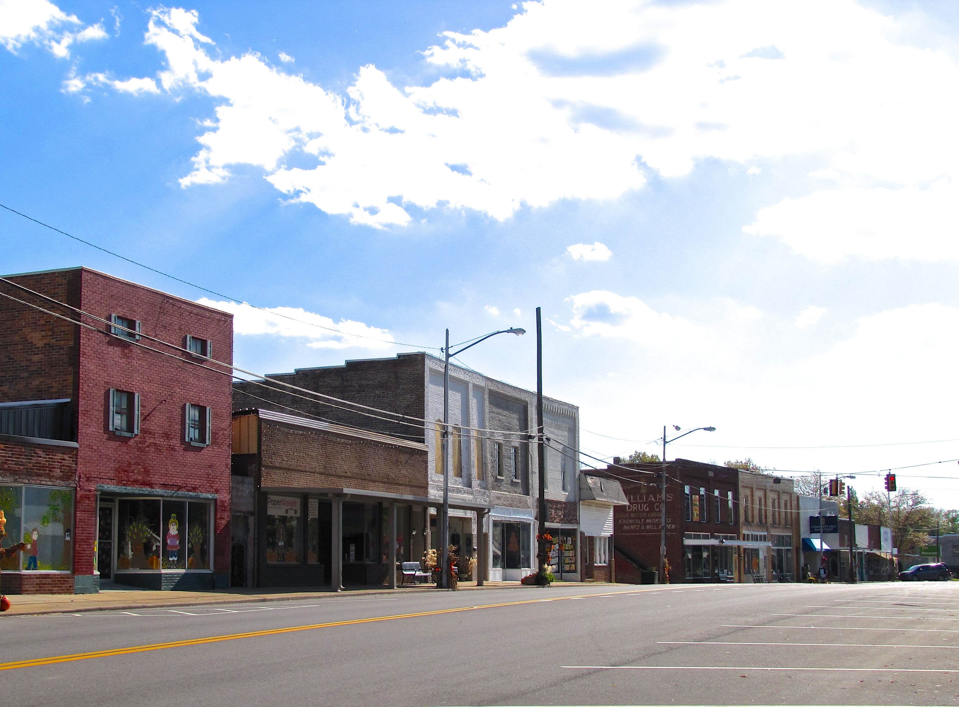 Buildings along Main Street in Mount Pleasant, Tennessee, United States.